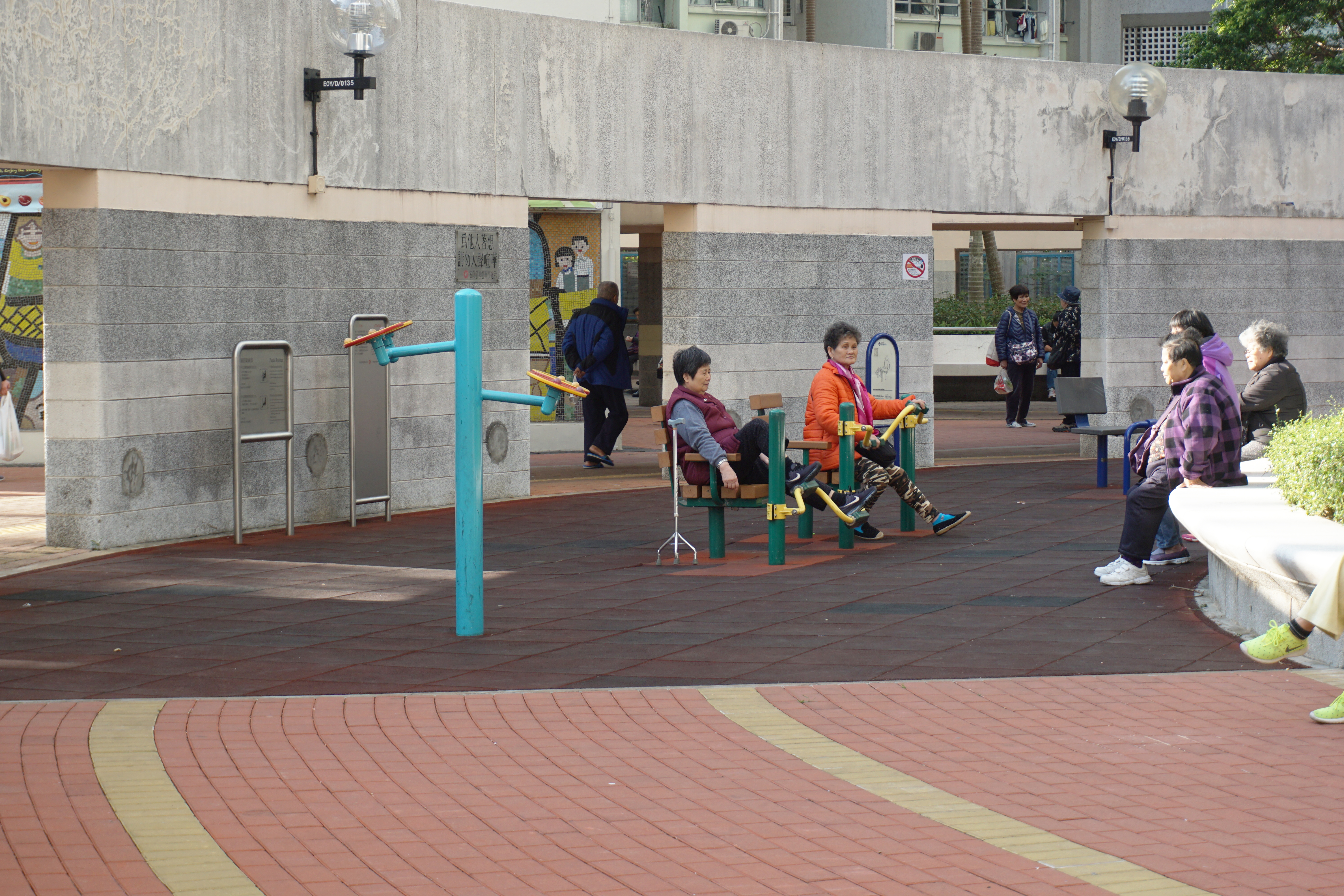 On Yam Estate in Shek Yam, Hong Kong.